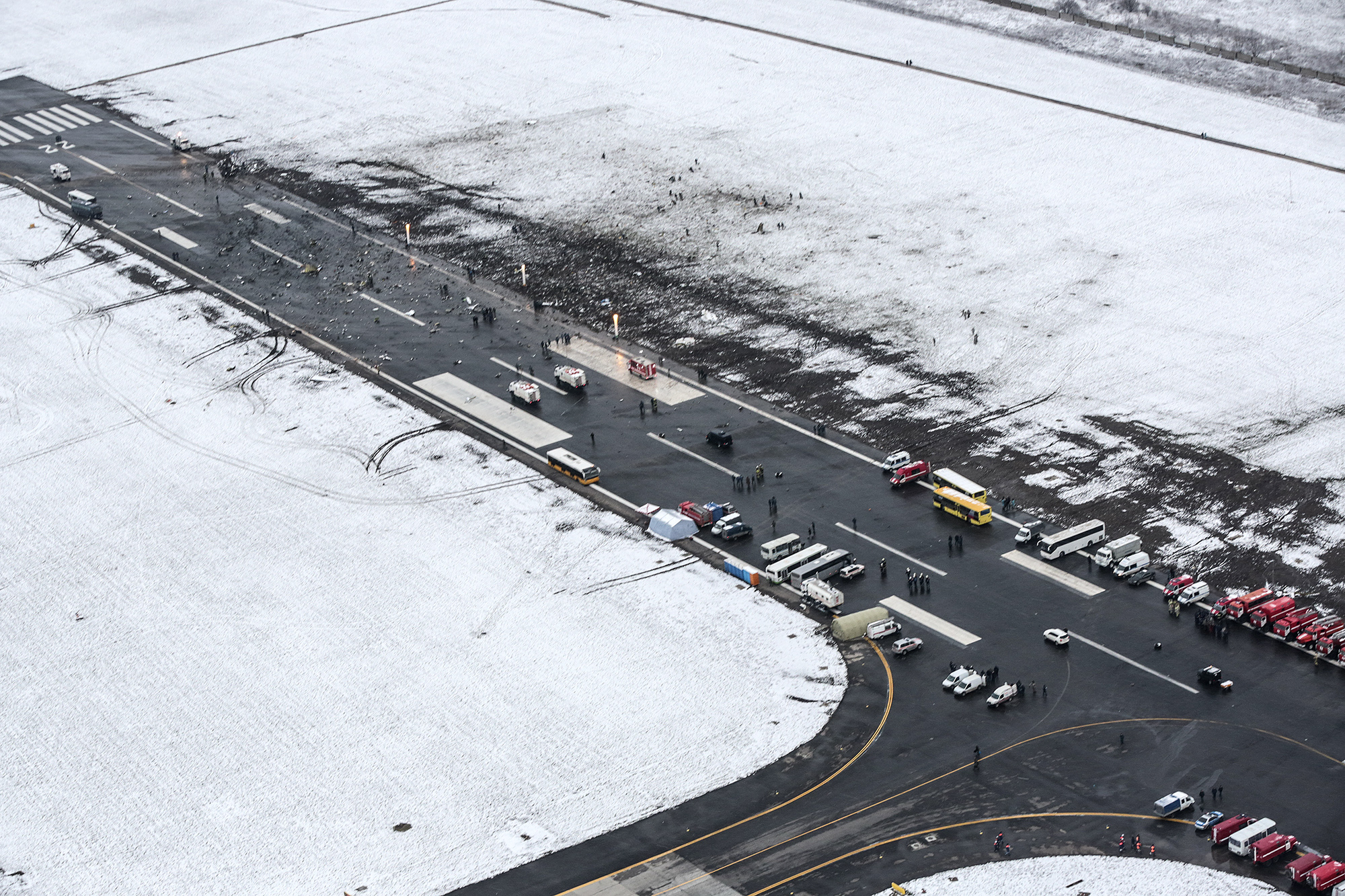 Aerial view of the crash site of Flydubai Flight 981 (Rostov-on-Don, Russia)